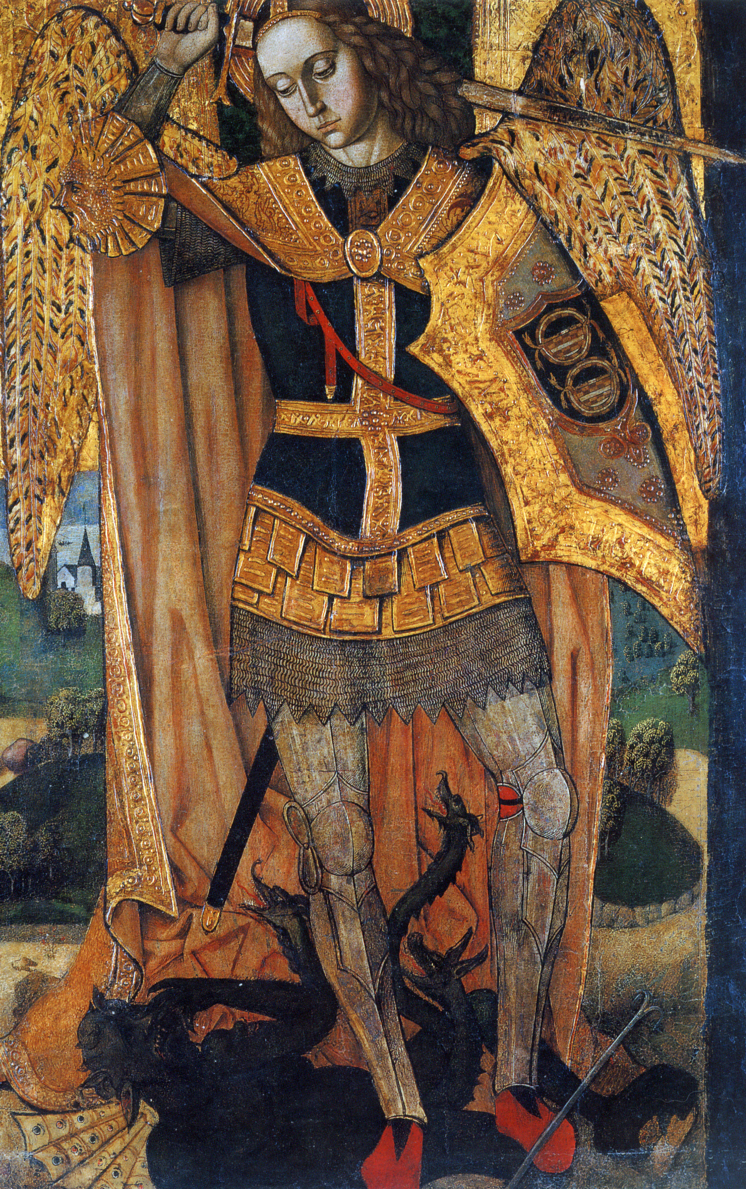 Archangel Michael